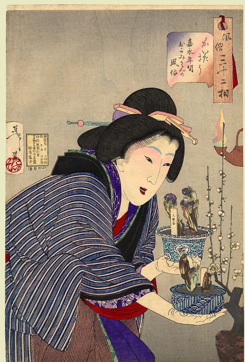 colored woodcut